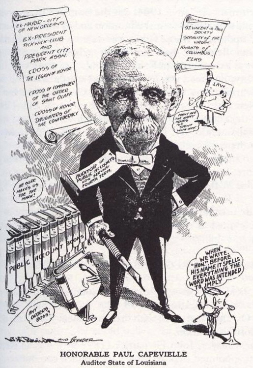 Cartoon depicting "Paul Capevielle" (sic, Capdevielle) in 1917, then Auditor of the State of Louisiana. Capdeville was formerly mayor of New Orleans.